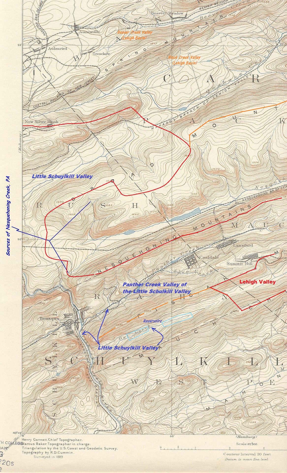 Re-rotated (unrotated) re-upload of File:Sources of Nesquehoning creek from hzlt93sw-Rot90cw.JPG. • This map serves the same function, but with the sources of the Nesquehoning written sideways. This version is heavily annotated, not only with red lines signifying the tops of drainage basins, the drainage divides between the Lehigh River basin and the Little Schuylkill River basin in the Ridge-and-Valley Appalachians folded landscapes, but orange lines to show divides between creek tributaries within the same drainage/river system. • This version's annotations label various valleys of subordinate drainage divides, such as Beaver Creek, Black Creek and the historic Panther Creek Valley, like about half the streams shown here, cutting through the border in between Carbon and Schuylkill Counties.• This map is also useful for showing certain railway routes and connections, such as the Mahanoy Division of the Lehigh Valley Railroad that rumbles through the Quakake Creek valley from lower Weatherly, PA. • This orientation is useful for displaying the complex drainage basins and especially the ridges with the drainage divides involving two counties above the historic coal mining and railroad communities of:Weatherly, PA, Beaver Meadows, PA, Delano, PA, Hometown, PA, Tamaqua, PA, Coaldale, PA, Lansford, PA, and extremely influential in the bootstrapping of the U.S. Industrial Revolution. Tamaqua co-ords: 40° 47′ 55″ N, 75° 57′ 59″ W 40.798611, -75.966389 Broad Mountain co-ords: 405343N 0754944W Tower, Carbon County, Pennsylvania 405435N 0754824W Northern Peak, Carbon County 404649N 0760838W Southern Peak, Schuylkill County, Pennsylvania